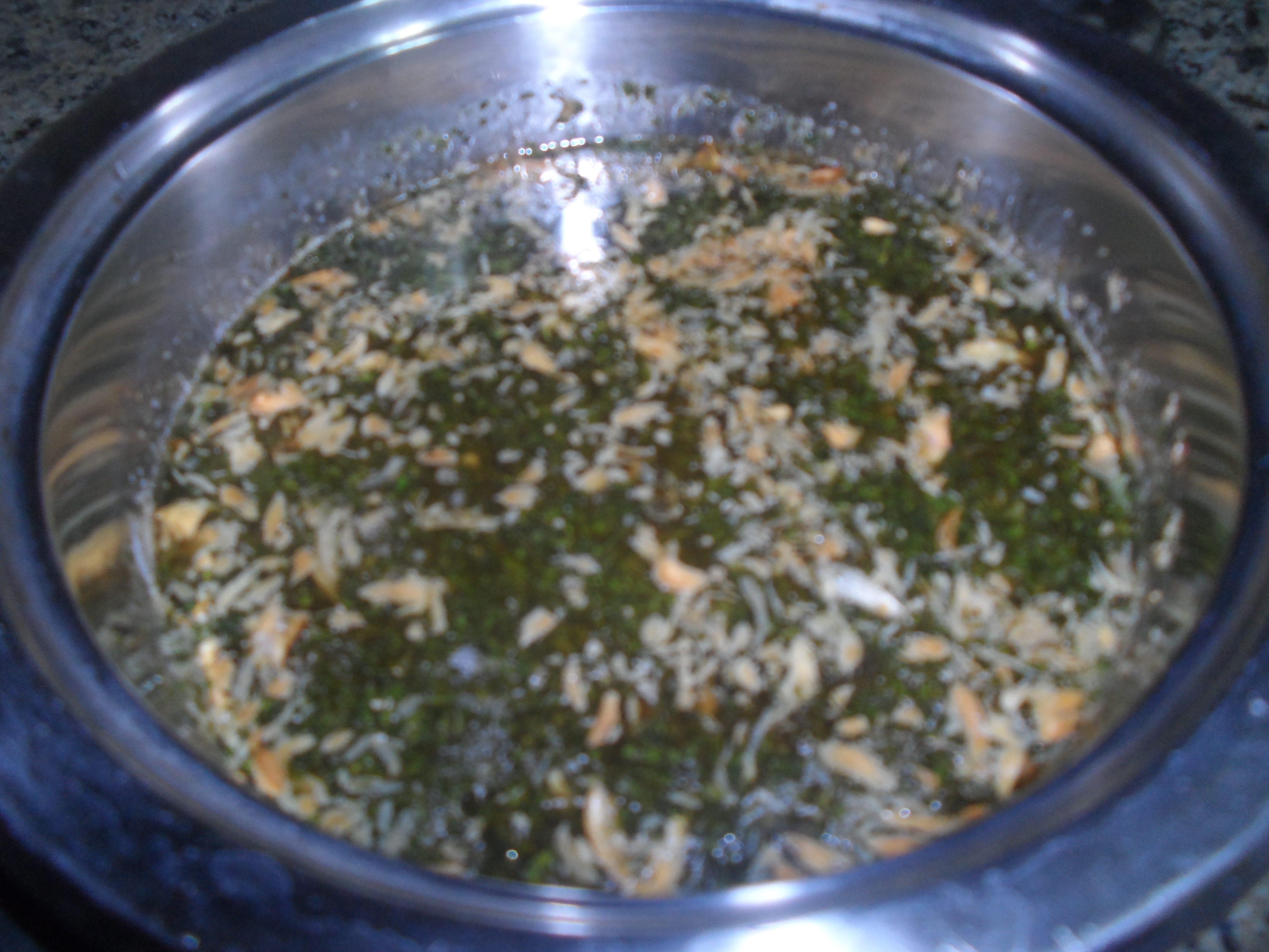 This is an image of food from Egypt